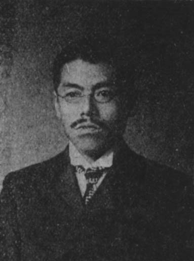 Mr. Miki Hatta, director of the Tokyo Prefectural Third Middle School.